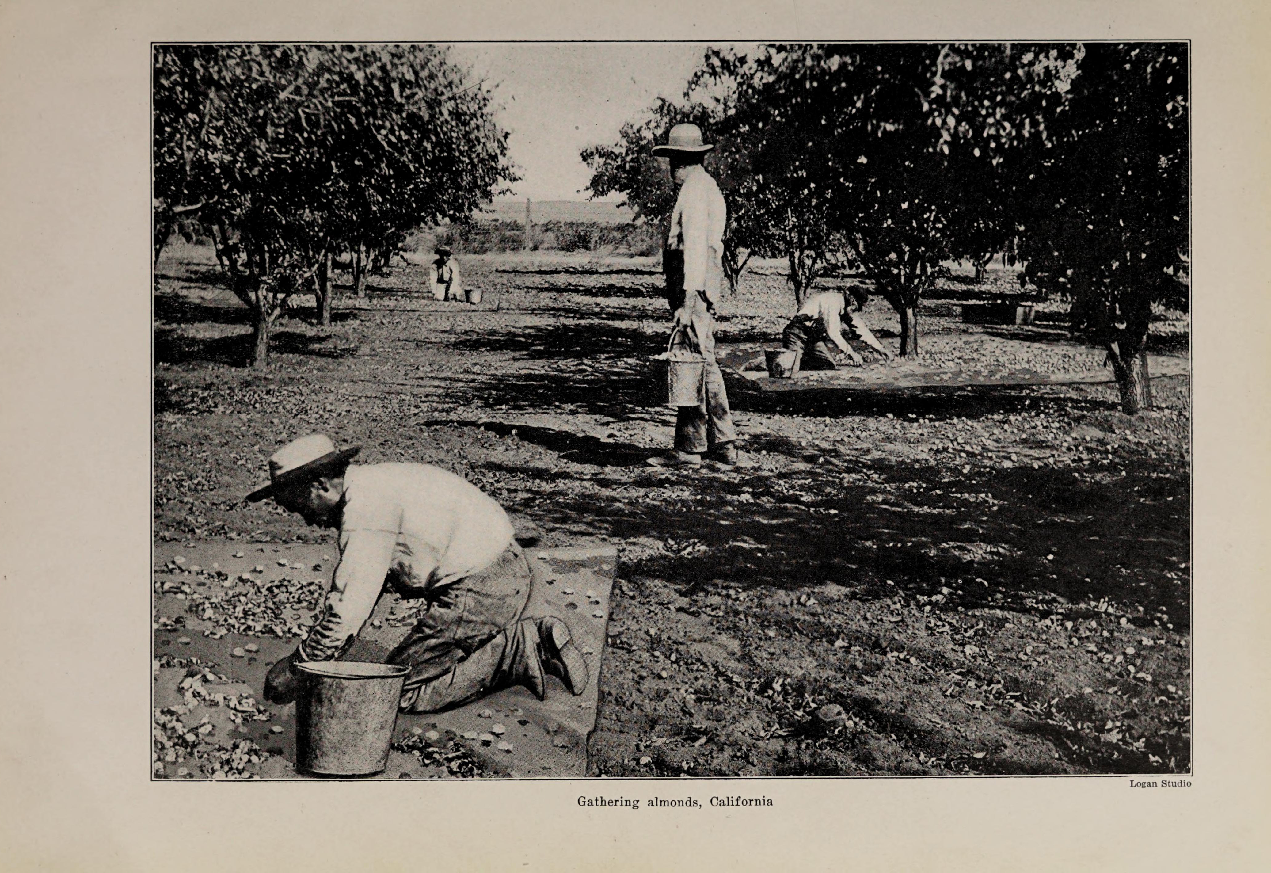 Gathering almonds, California, pg. 5 of The Encyclopedia of Food